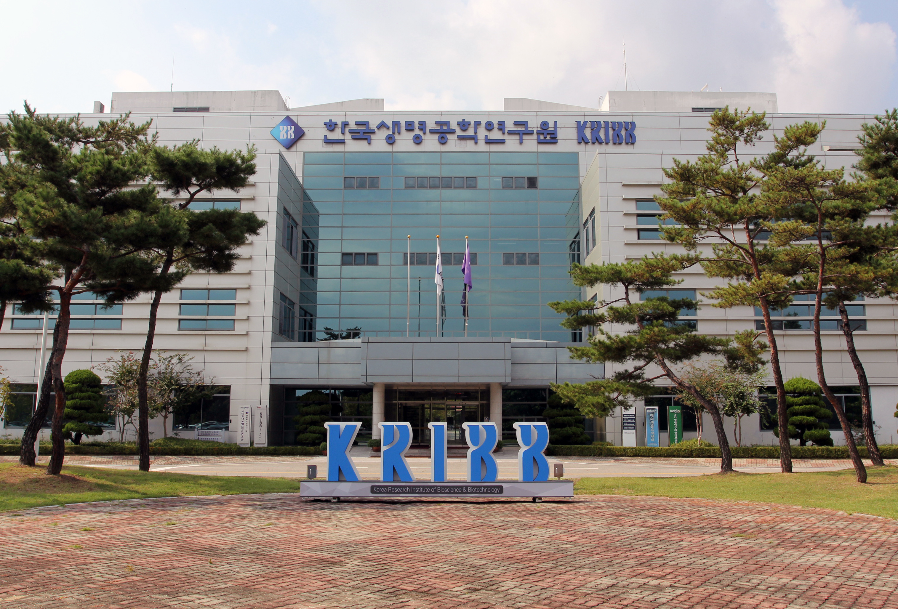 Korea Research Institute of Bioscience and Biotechnology main building.